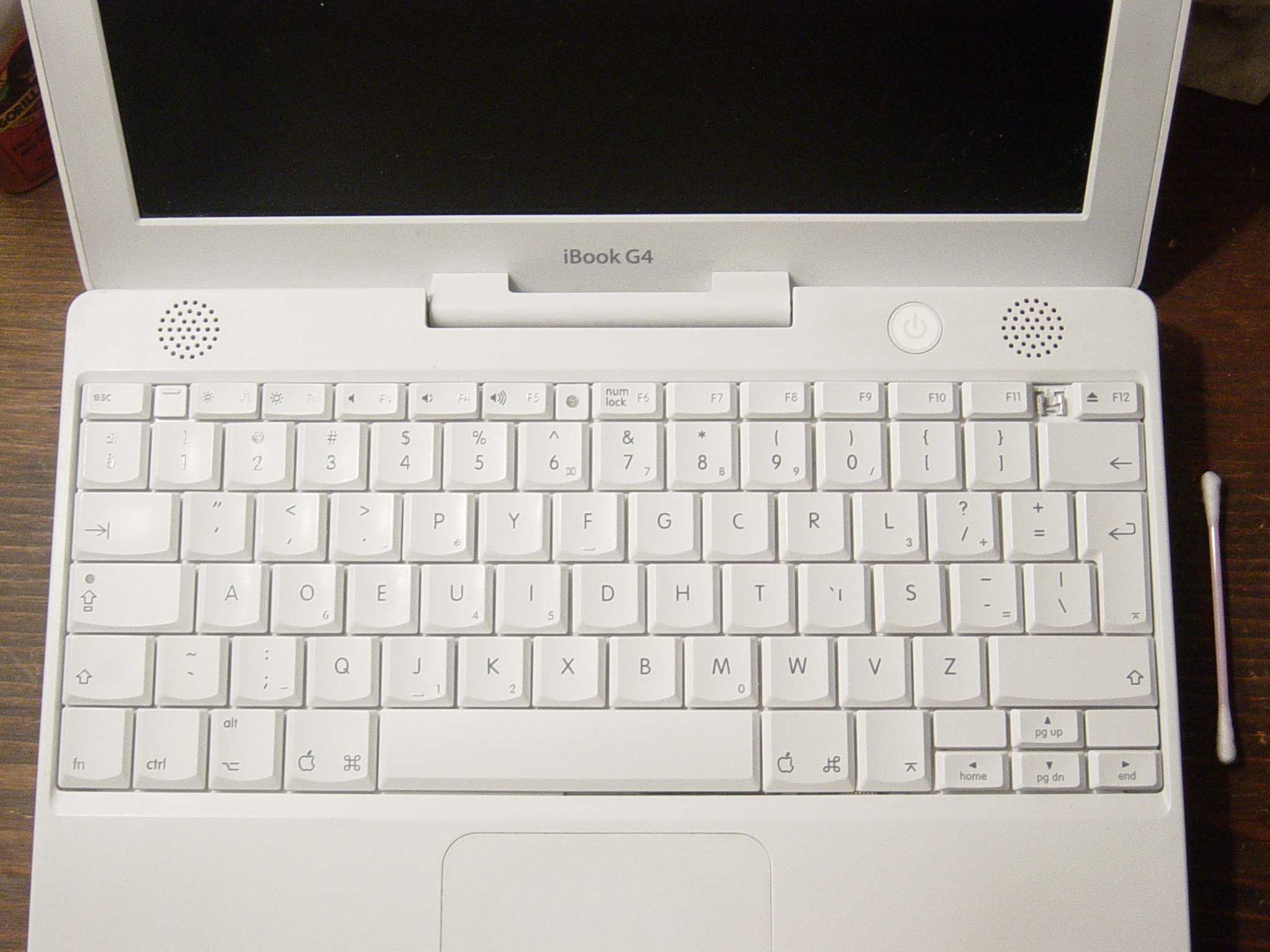 A Mac iBook with the keys manually rearranged to the Dvorak Simplified Keyboard layout. Photo by Michael Bunsen.